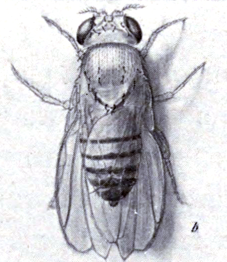 Fig. 53. Group I. (See text)